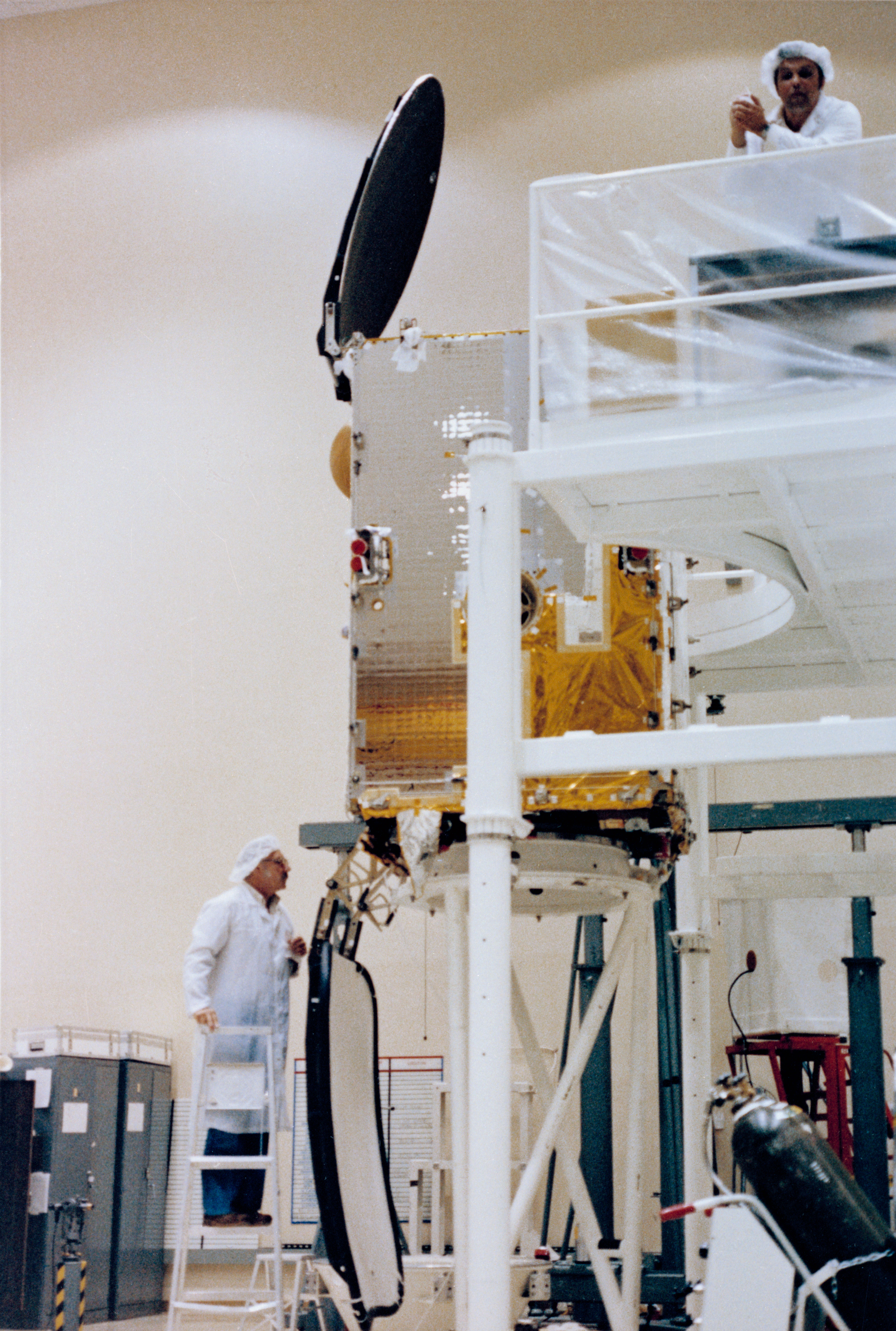 INSAT-1B undergoing pre-launch preparations aboard the space shuttle Challenger at the Cape Canaveral Air Force Station and at NASA's Kennedy Space Center (KSC). It was second such Indian communications/meteorological spacecraft, the first having been launched on a Delta launch vehicle. The STS-8 astronaut crew members and a payload assist module (PAM) will aid INSAT-1B in its deployment.